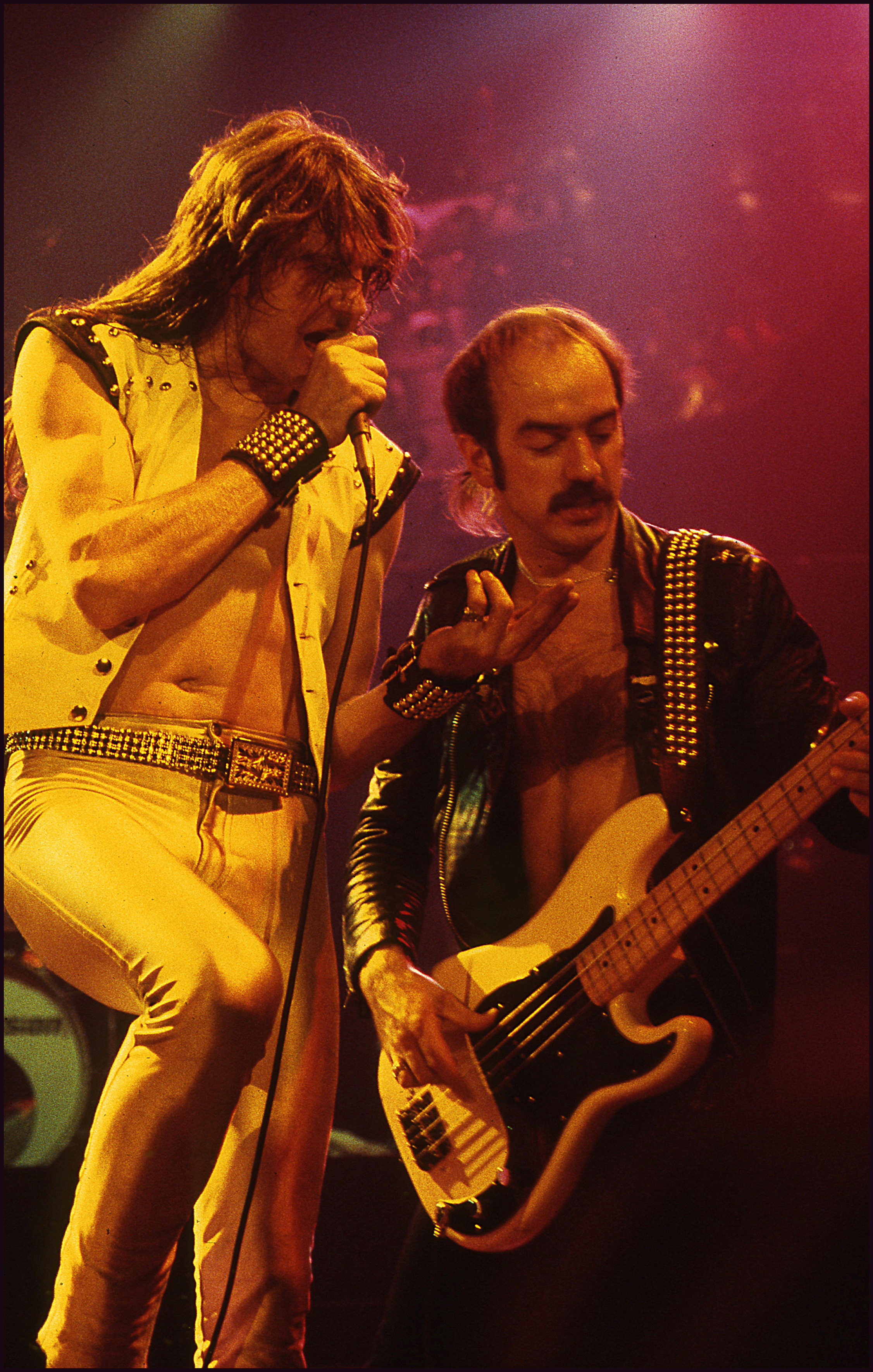 Saxon performing live at Manchester Apollo (1981).